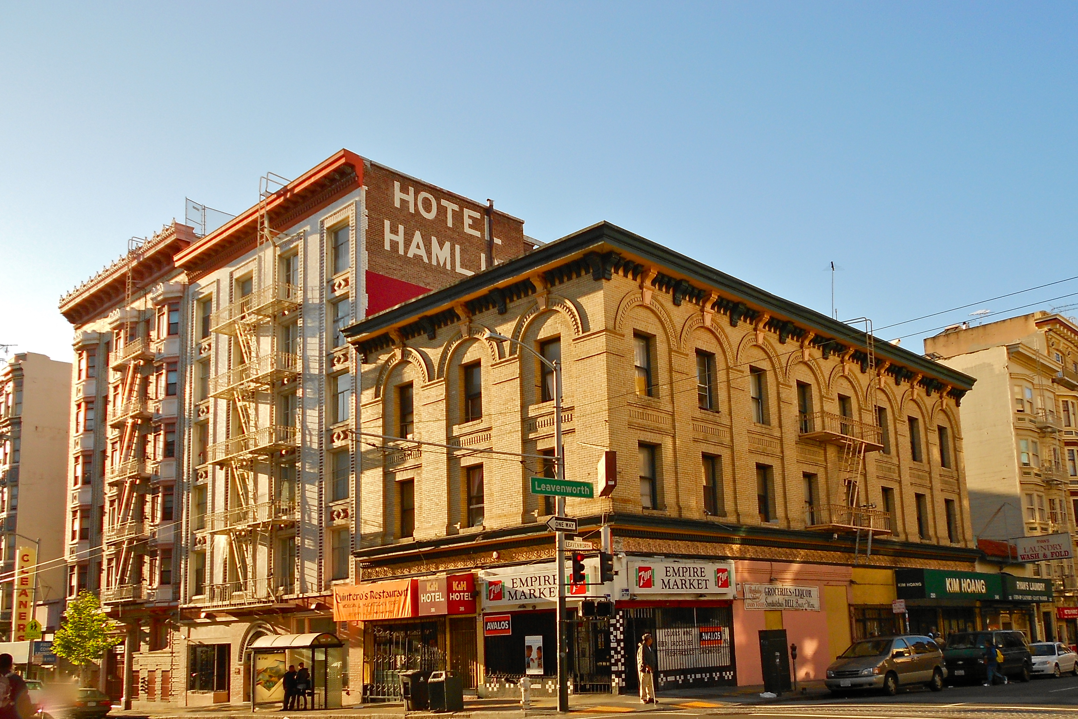 Hamlin Hotel in the Upper Tenderloin Historic District, San Francisco